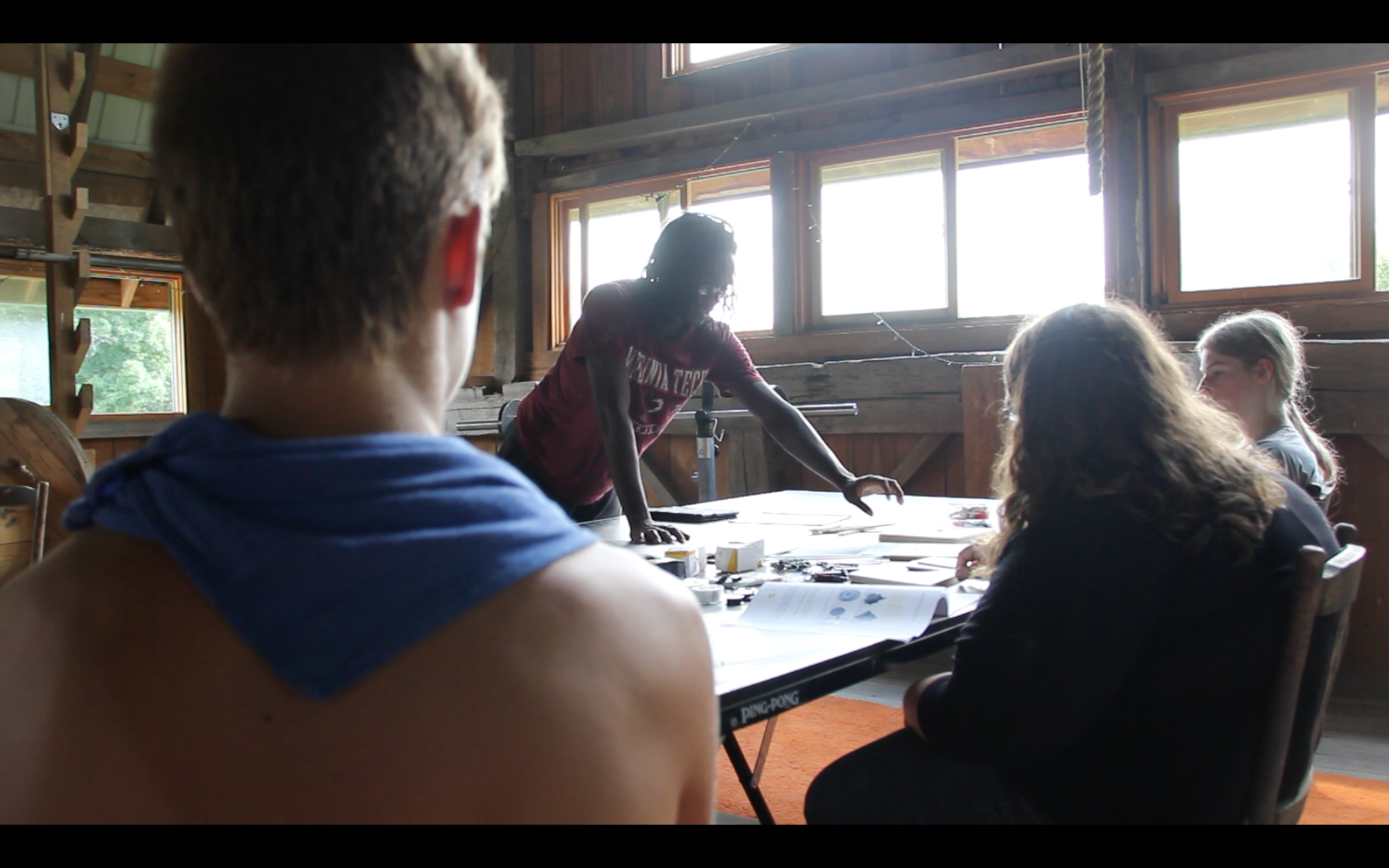 Phillip Daniel brainstorms with homeschoolers about mechanical engineering project ideas on a farm outside of St. Louis, MO